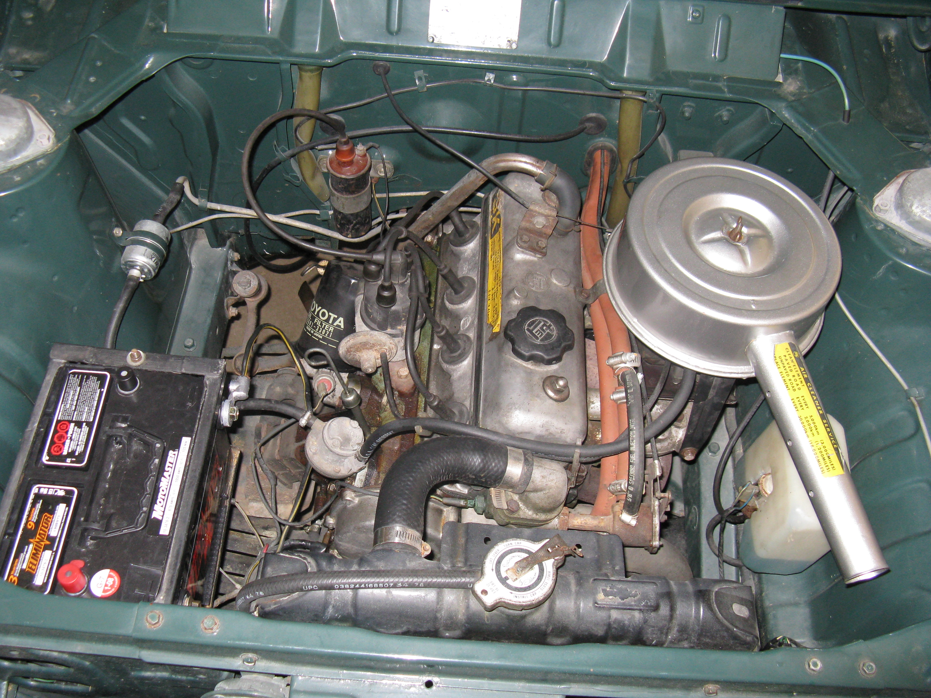 3K engine from 1970 Toyota Corolla KE20.